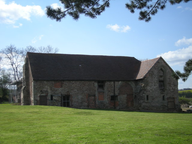 Old barn at Hall Farm